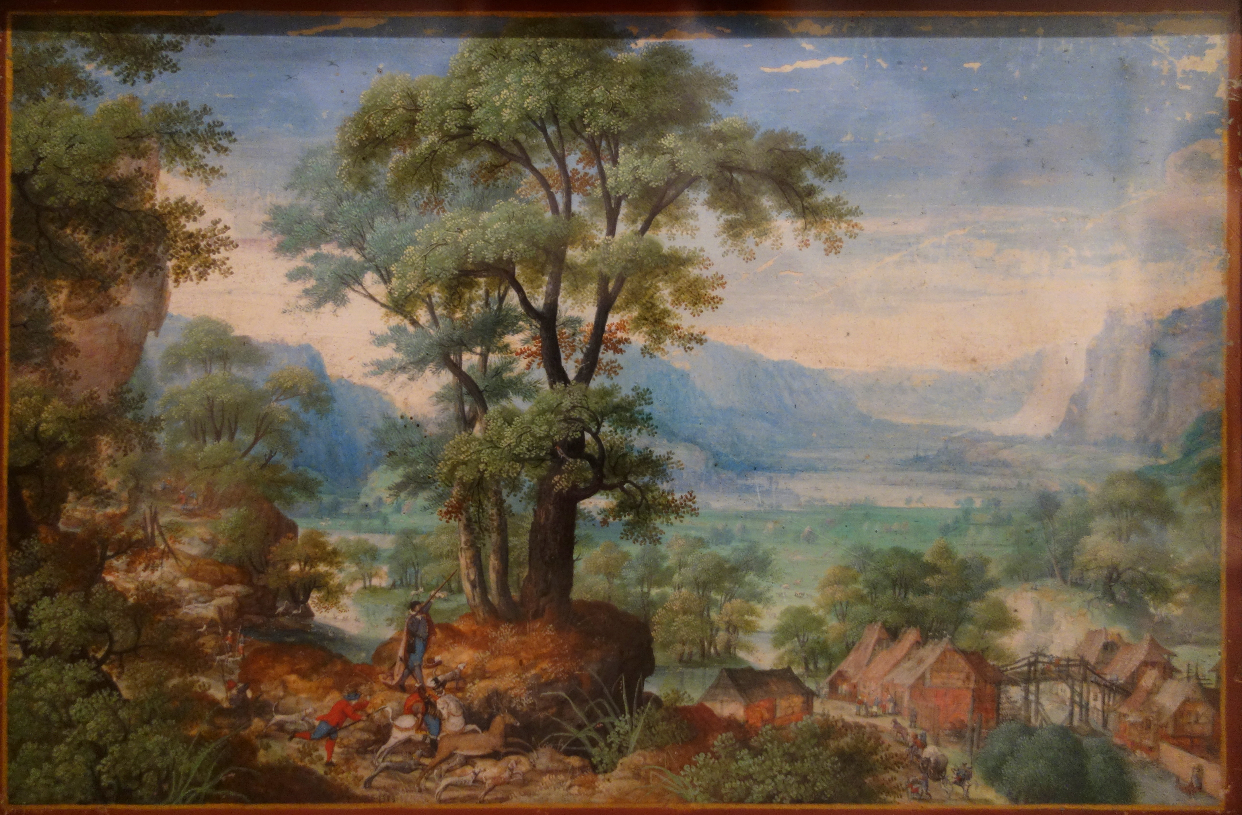 Landscape with Hunters